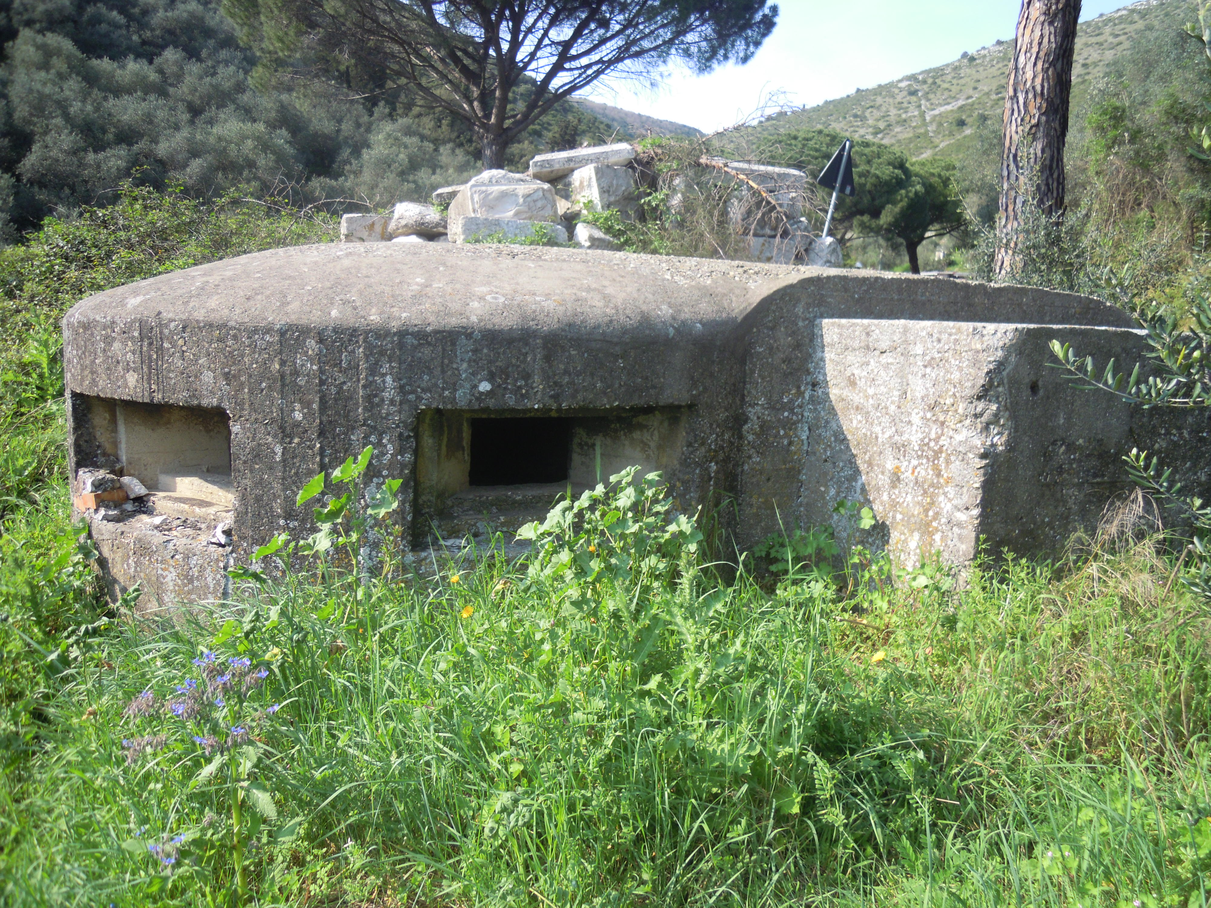 Terzo Bunker